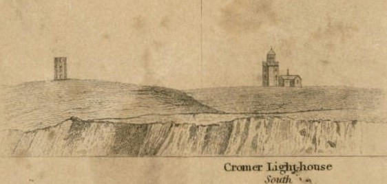 This is a detail taken from Admiralty Chart No 1455 England East Coast Sheet IV From Cromer To Trusthorpe Surveyed By Captn. Hewett R.N., Published 1843.jpg, showing the surviving old Cromer Lighthouse tower of 1719 (left) alongside its 1833 replacement (right). The promontory known as Foulness had suffered a series of collapses due to shore erosion, threatening the old lighthouse and prompting the construction of a replacement further inland. As things turned out, the old lighthouse survived for more than three decades after the completion of the new, finally succumbing to the sea in 1866.